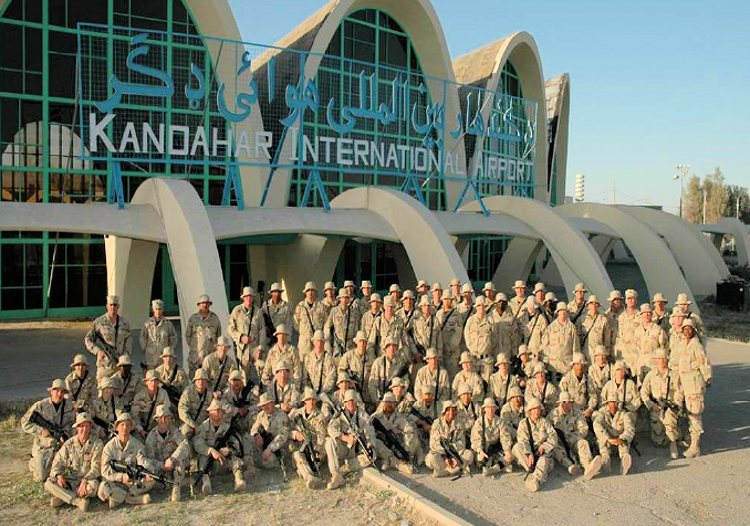 Members of the 603rd Air Control Squadron in Afghanistan in 2003. (31 FW Multi Media Photo)